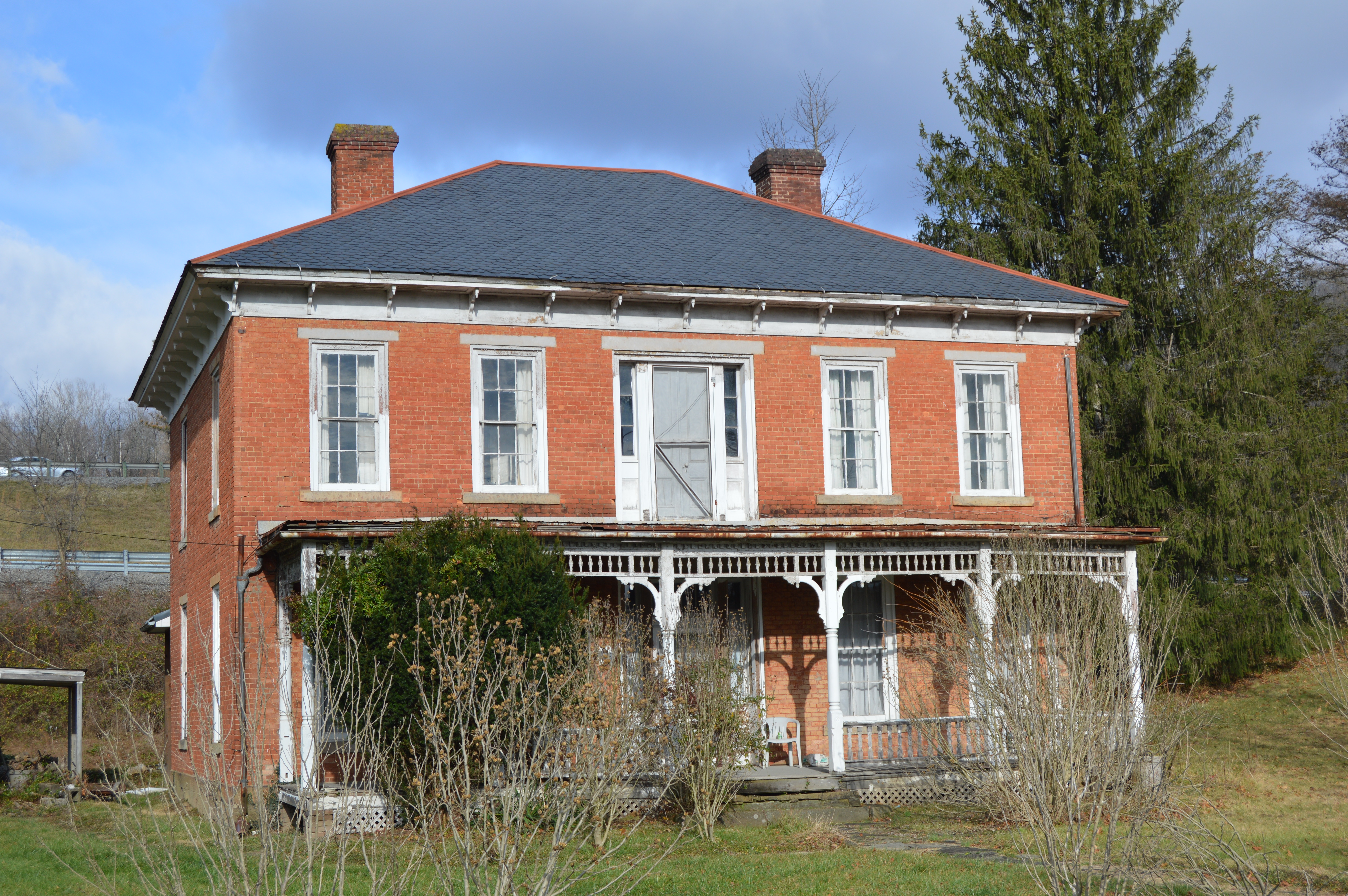 Front of the Daniel Bassel House, located on Lost Creek Road just south of the main street in Lost Creek, West Virginia, United States. Built in 1865, it is listed on the National Register of Historic Places.